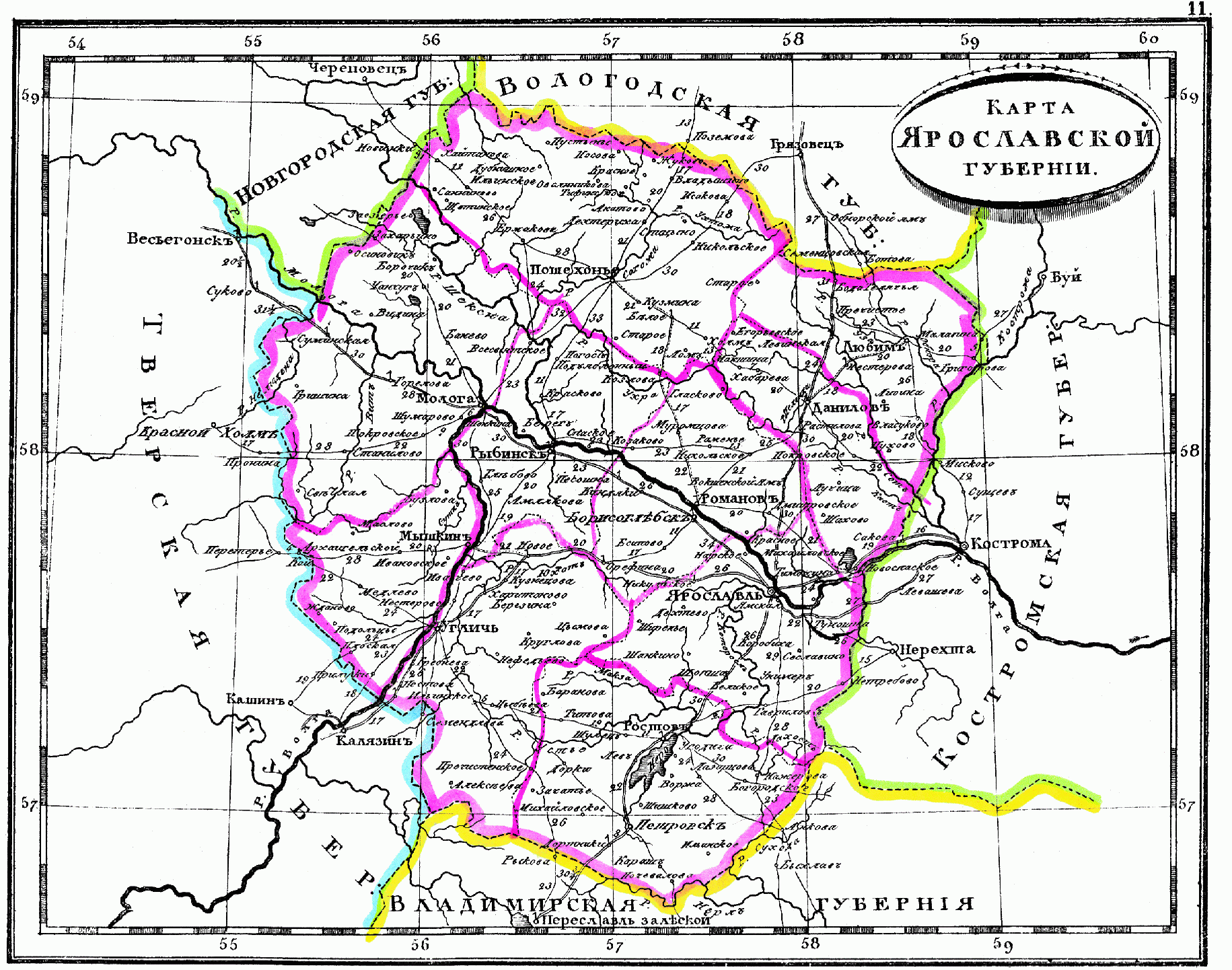 Map of Yaroslavl Governorate, 1835